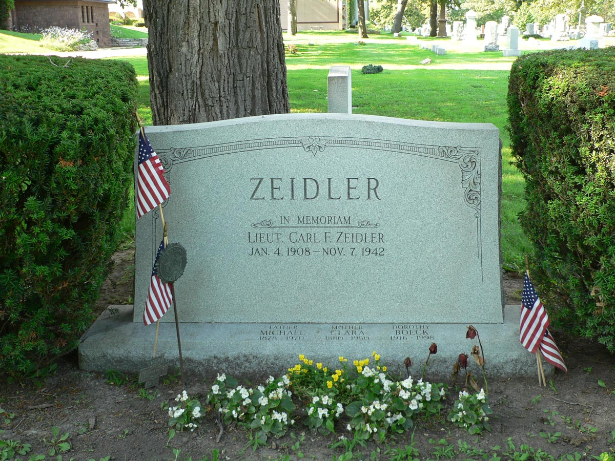 Copyright © 2006 Sulfur Gravestone cenotaph for former Milwaukee mayor Carl Zeidler, located on the grounds of Forest Home Cemetery in Milwaukee, Wisconsin.